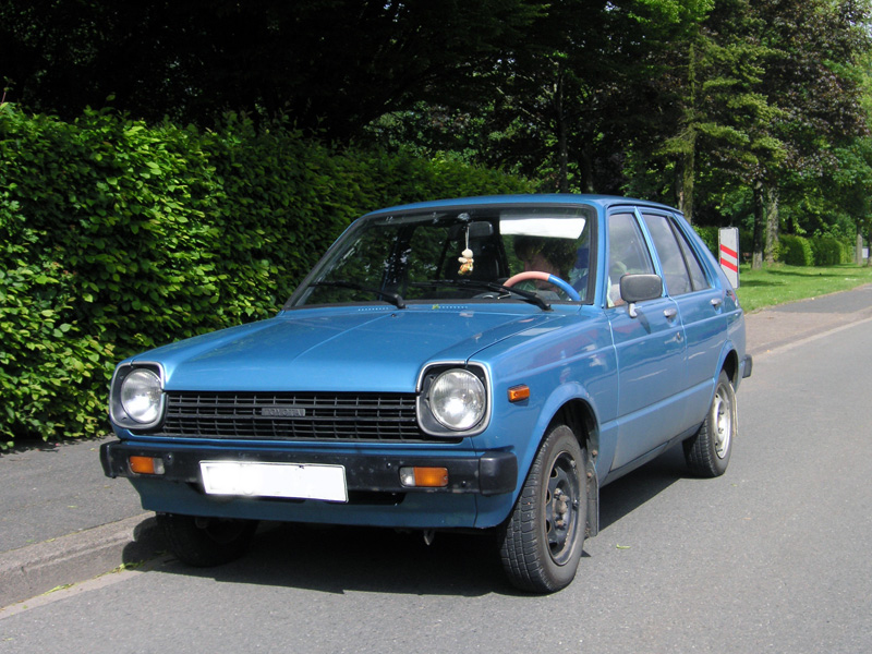 Toyota Starlet 1000 Deluxe 5-door hatchback (KP60, Europe).